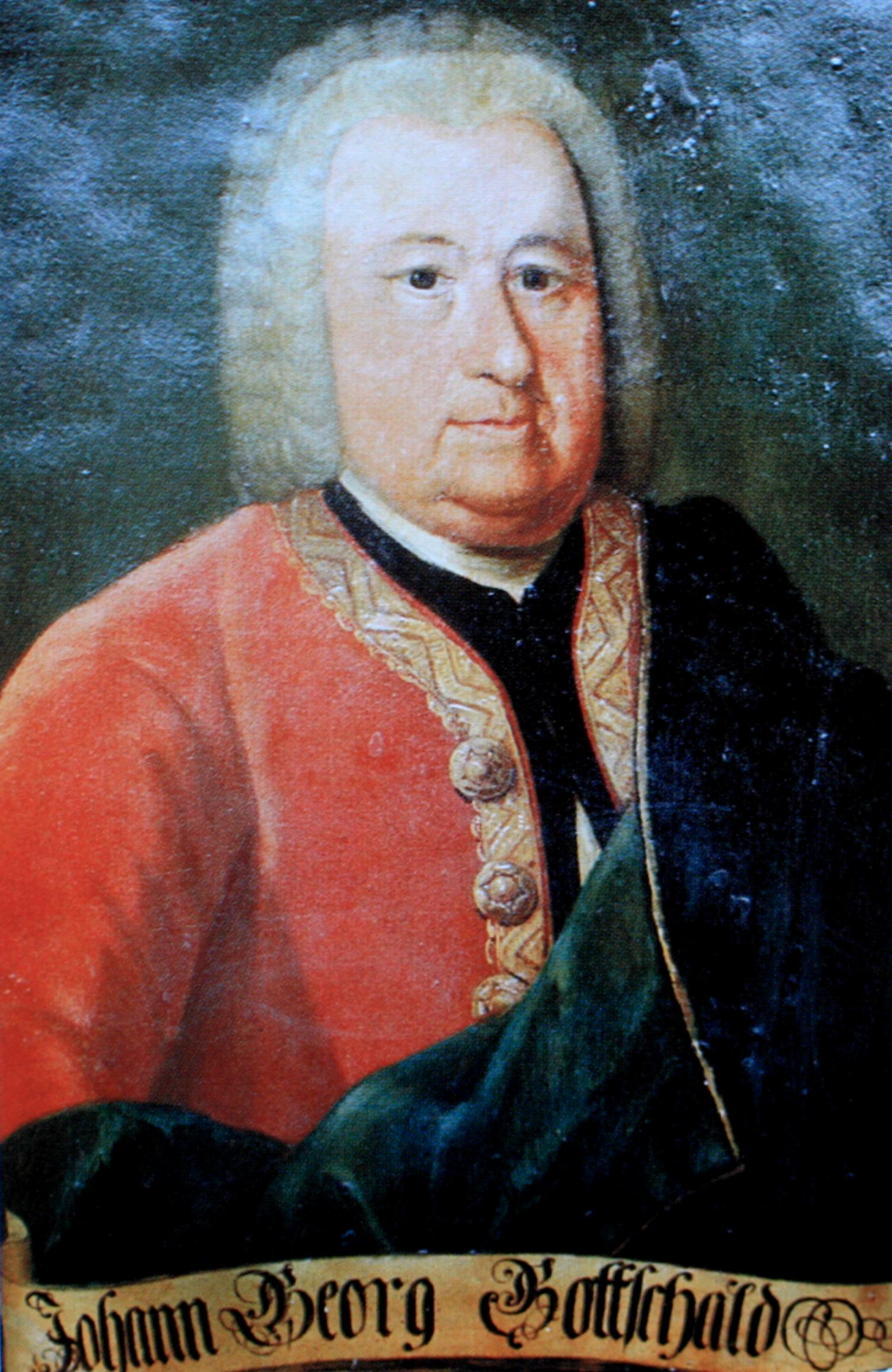 Johann Georg Gottschald, painting on tin-coated sheet of iron, stolen from Johanngeorgenstadt Church in 1991.